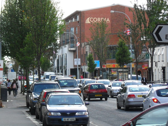 Lisburn Road at Malone Avenue, Belfast The Lisburn Road seen just after 4pm on a busy Tuesday. The slow moving traffic is a characteristic of this stretch of the Lisburn Road, as vehicles pass countless sets of traffic lights and pedestrian crossings.